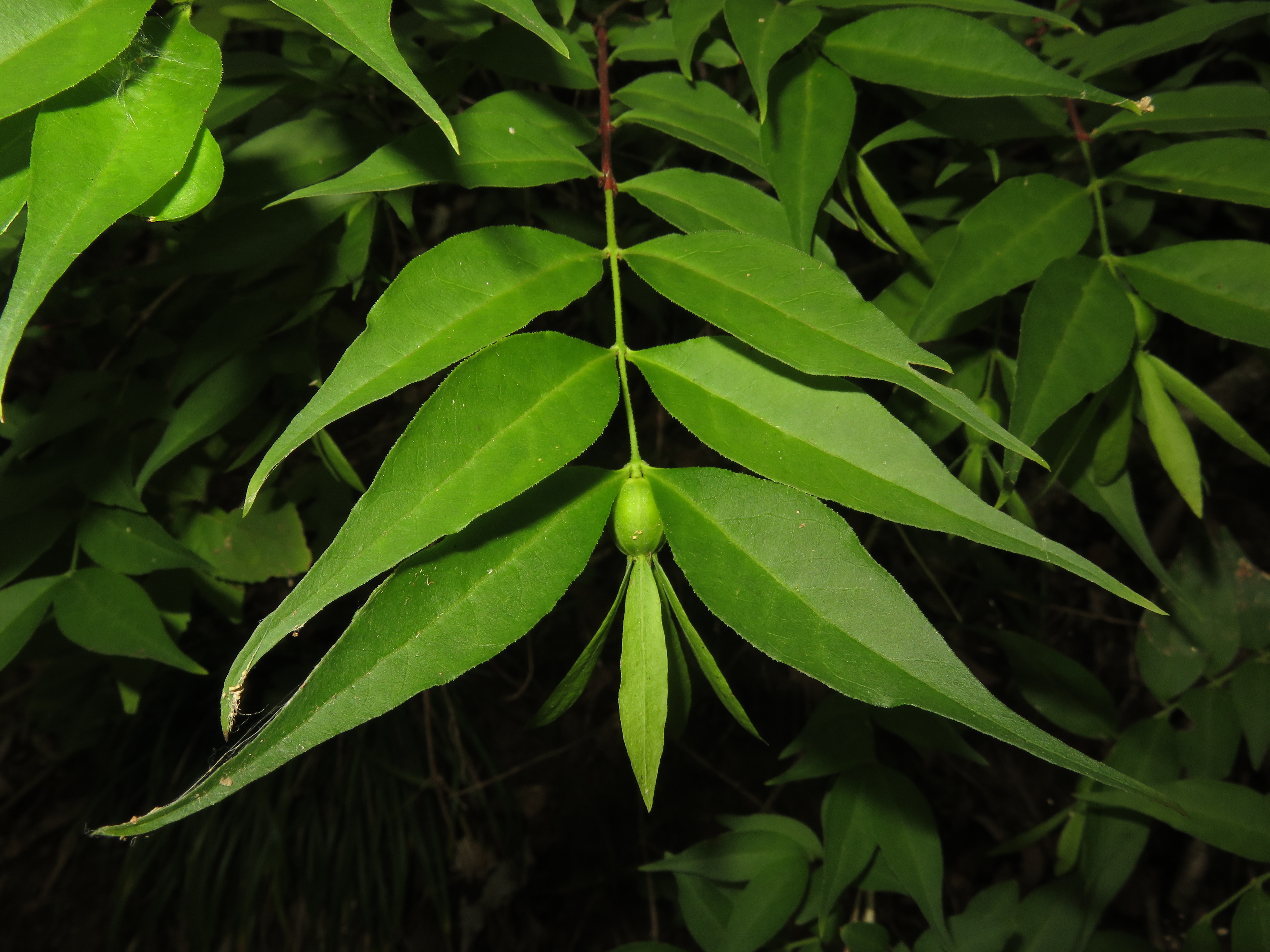 Buckleya lanceolata, Aizu area, Fukushima pref., Japan